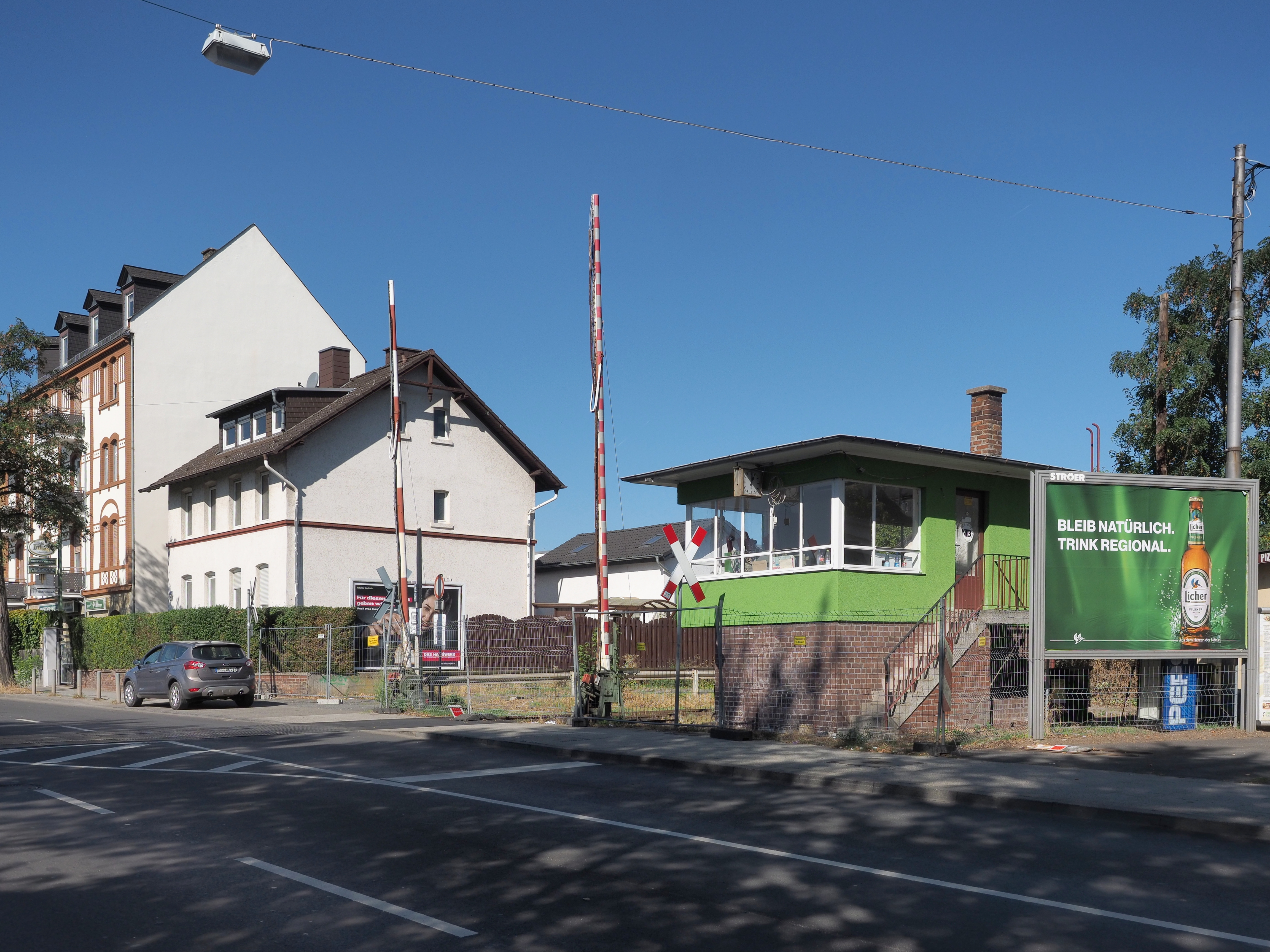 Level crossing at Dotzheim train station on the Aartalbahn, Wiesbaden